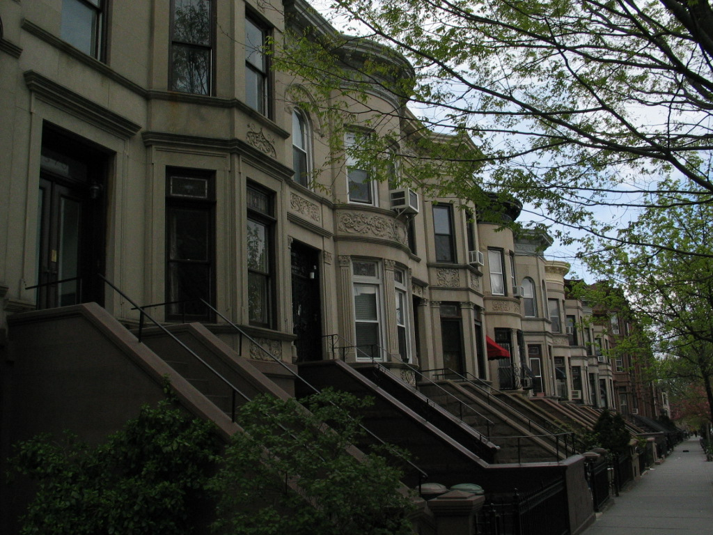 Photo by Greogry Kats (myself) Especially in spring, Victorian Houses of Park Slope Streets look so fabulous.